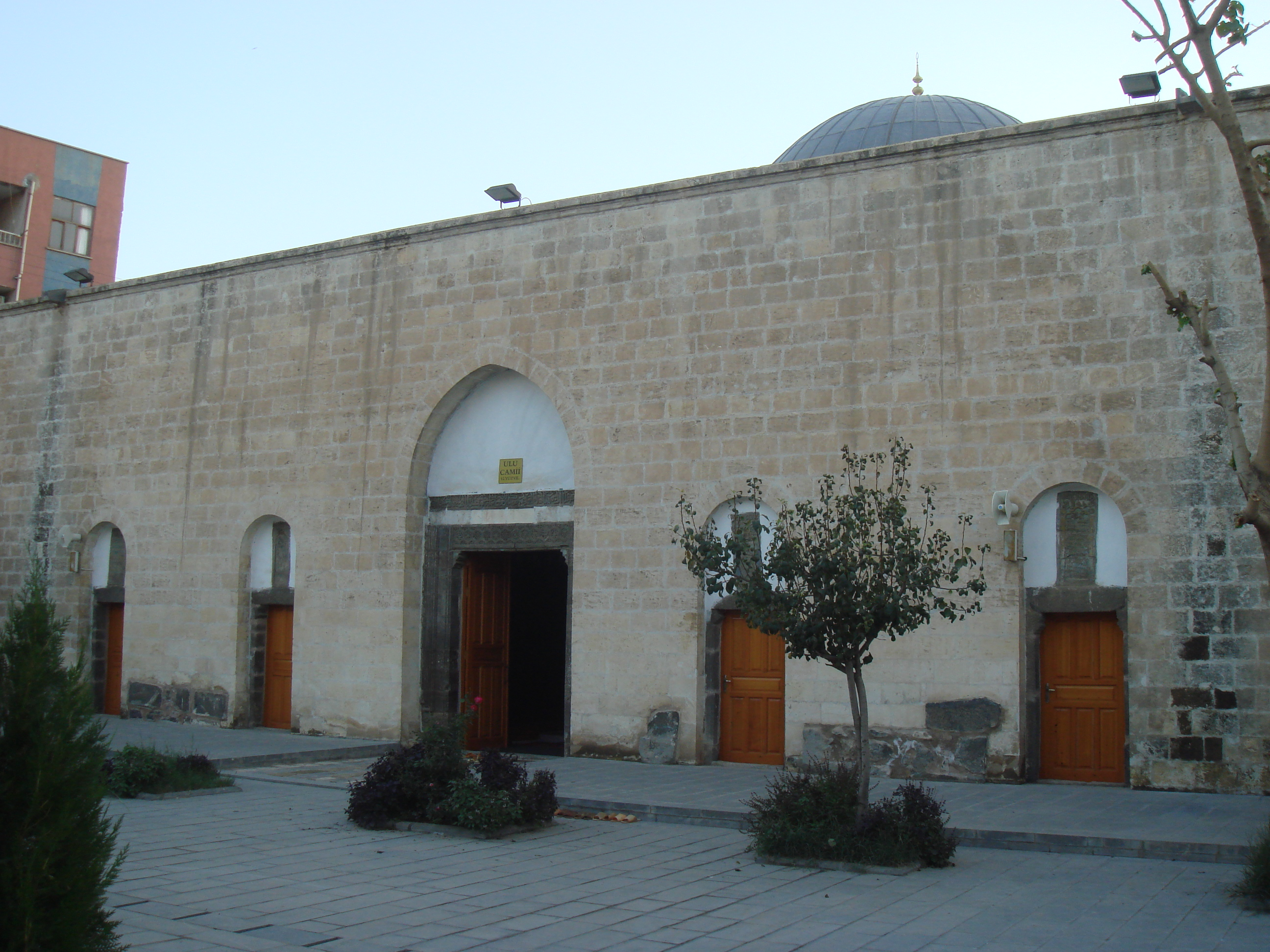 The Grand Mosque of Cizre, 2009. Kurdî: Mizgefta Mezin a Cizîra Botan, 2009.